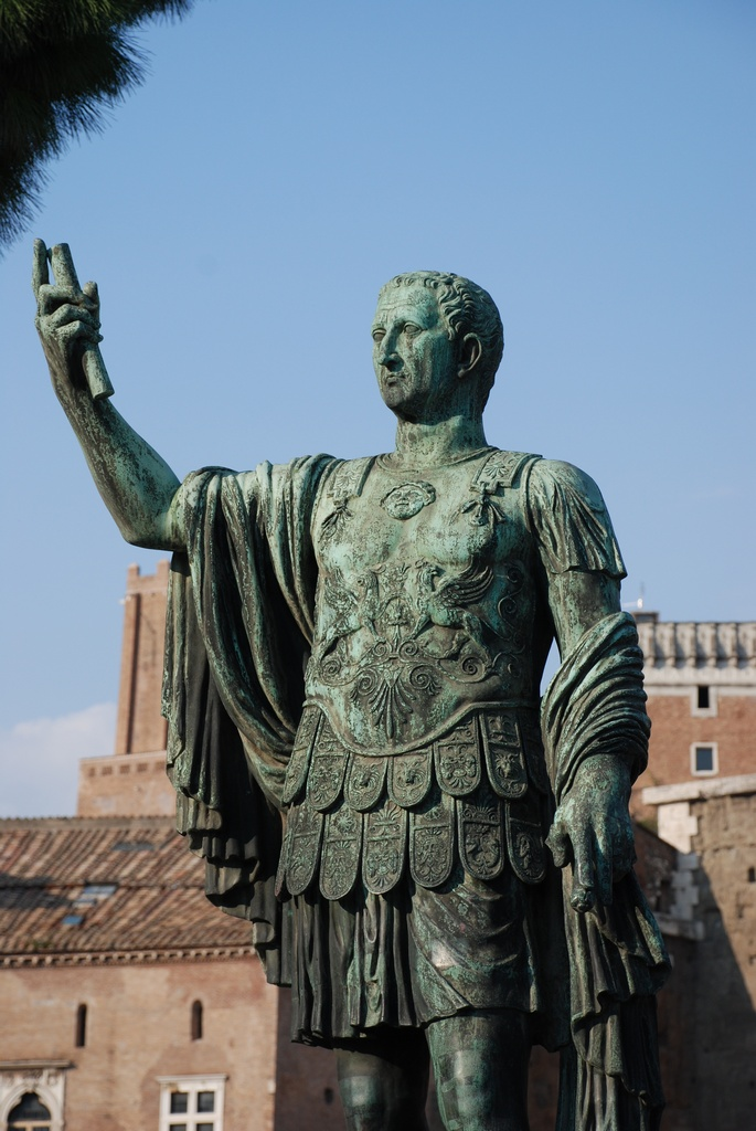 Statue of Nerva